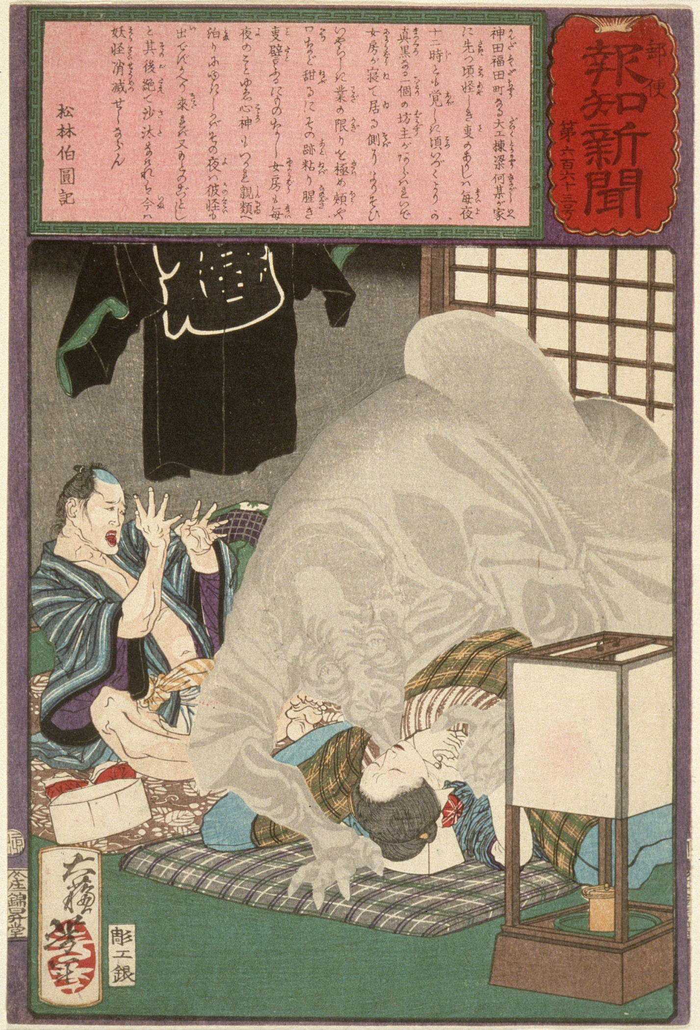 Japan, 1875, 4th month Series: The Postal News, no. 663 Prints; woodcuts Color woodblock print Herbert R. Cole Collection (M.84.31.123) Japanese Art